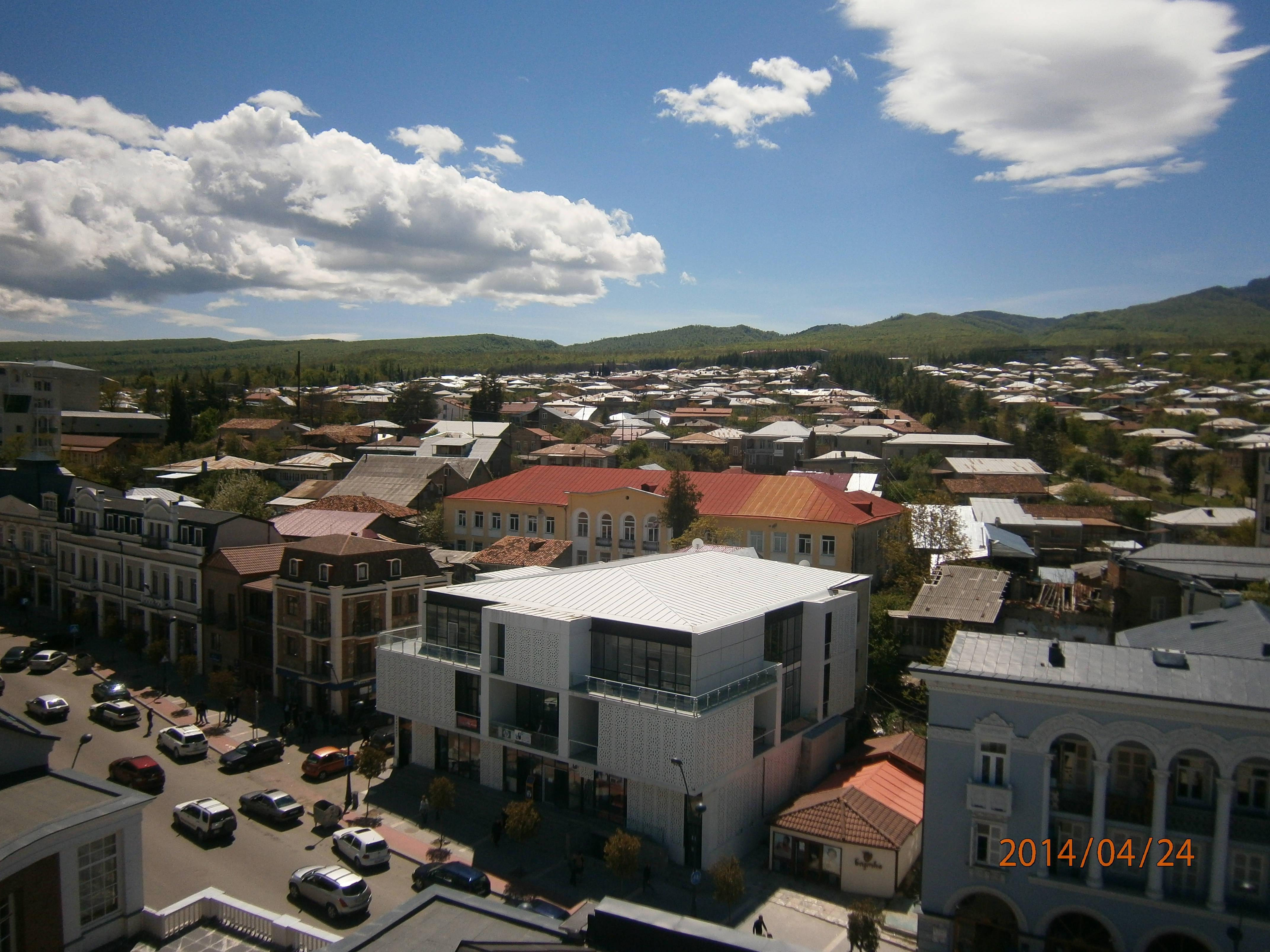 Telavi. Georgia.